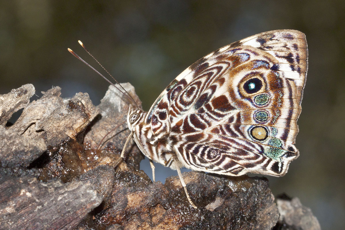 Blomfild's Beauty, Smyrna blomfildia. In November of 2011, multiple individuals were found attracted to rotting fruit at the National Butterfly Center (outdoor) gardens. Mission, Hidalgo Co., TX, USA.